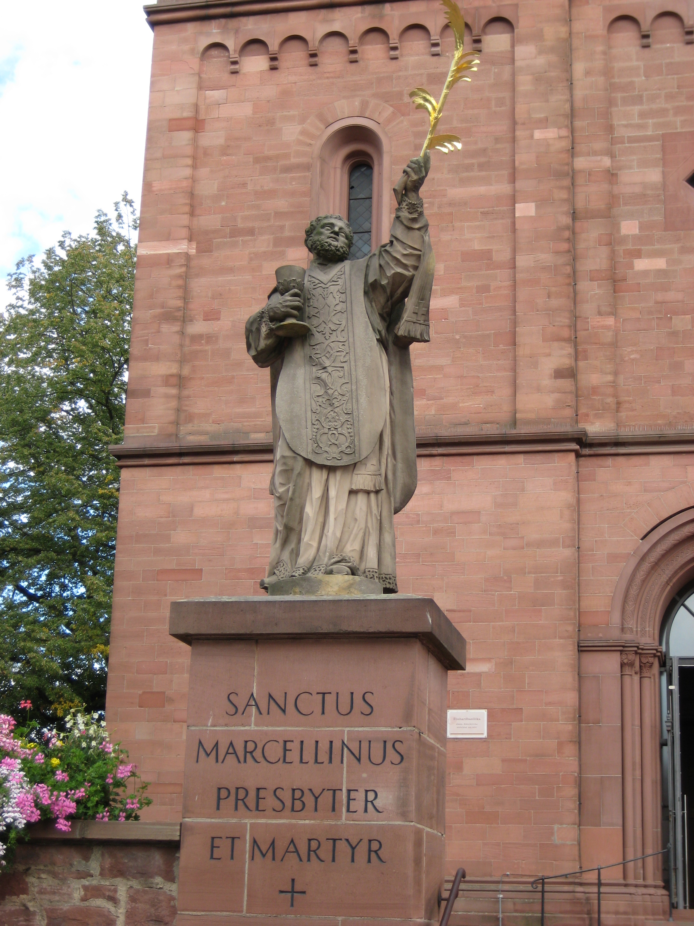 Saint Marcellinus Martyr Germany Seligenstadt